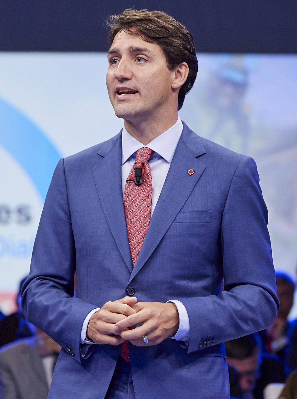 Justin Trudeau (Prime Minister, Canada) at NATO Engages: The Brussels Summit Dialogue.